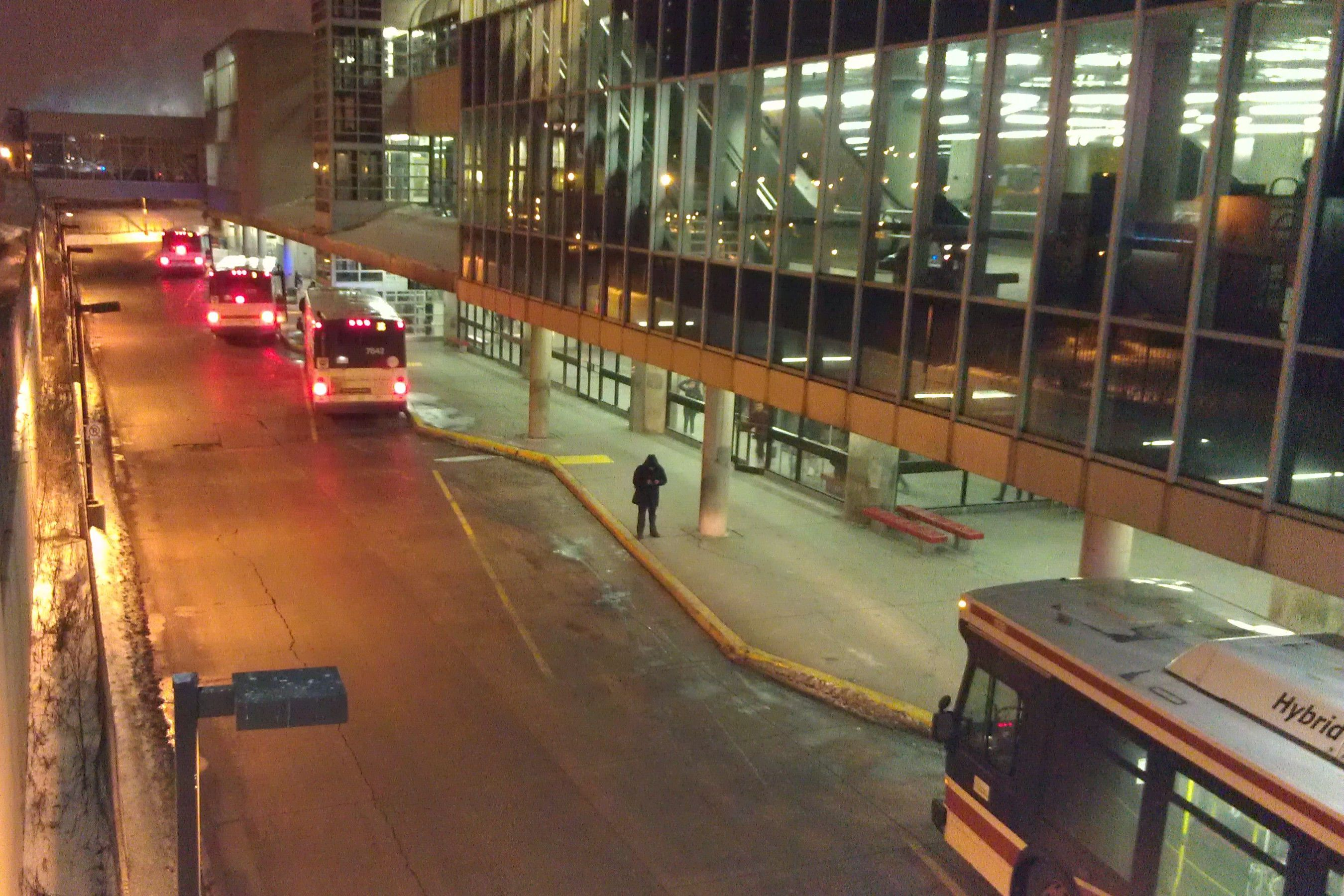 Bus bays at Scarborough Centre Station in Toronto